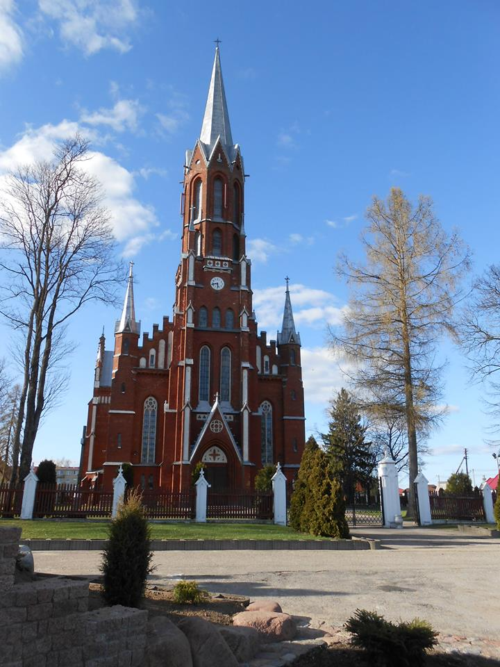 Silale Church of St. Francis of Assisi